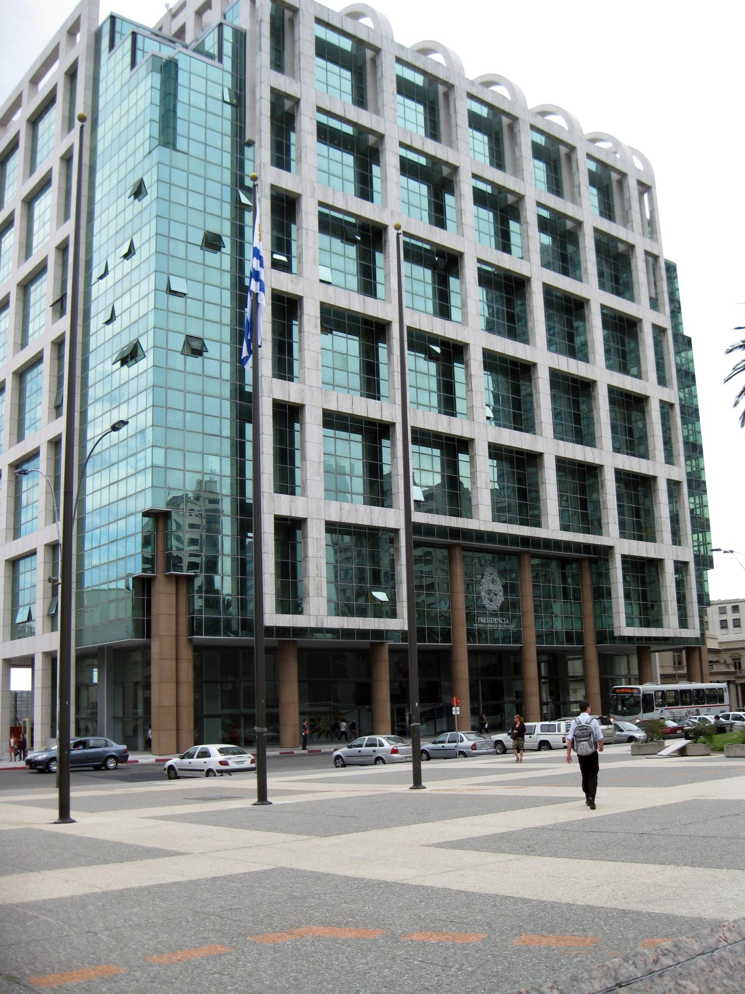 The Executive Building (Montevideo), site of the Office of the President of Uruguay.